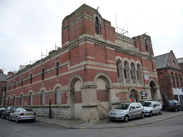 Weymouth - Former Methodist Church This church was built on the site of the King's Head Inn in 1866. In March 2006 a fire broke out in the church and it was reduced to a shell.